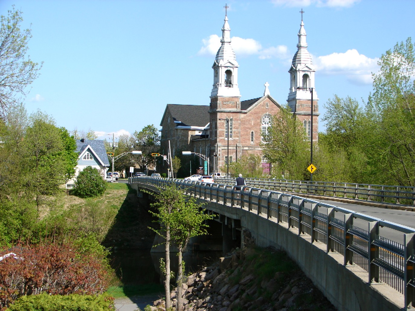 Rigaud, Quebec, Canada